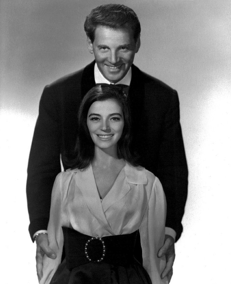 Photo of Jean-Pierre Aumont and Marisa Pavan, who were husband and wife.